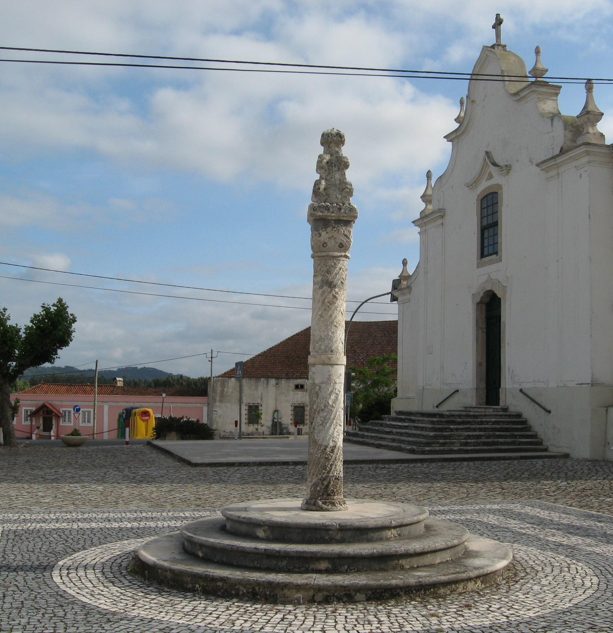 Alcobaça, Portugal, Mosteiro de Alcobaça, Coutos de Alcobaça, County of the Abbey, Alfeizerão, pillory (Pelourinho) from 1514 with Church Igreja de São Jão Baptist, 1633